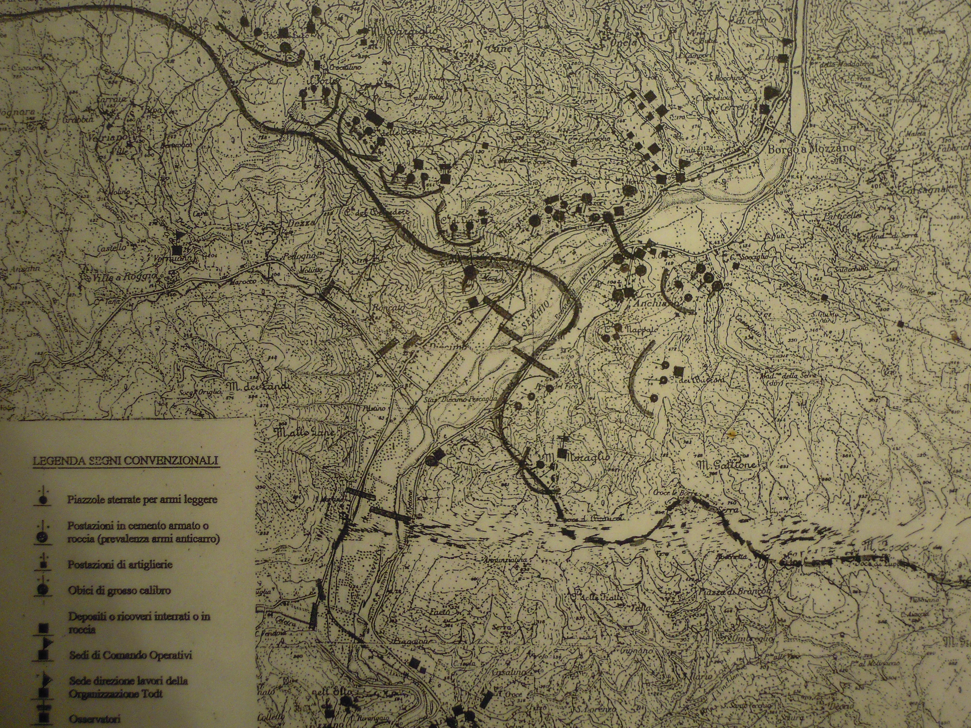 linea gotica a borgo a mozzano